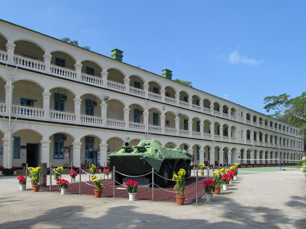 Lyemun Barracks Block 10, Lei Yue Mun Park and Holiday Village